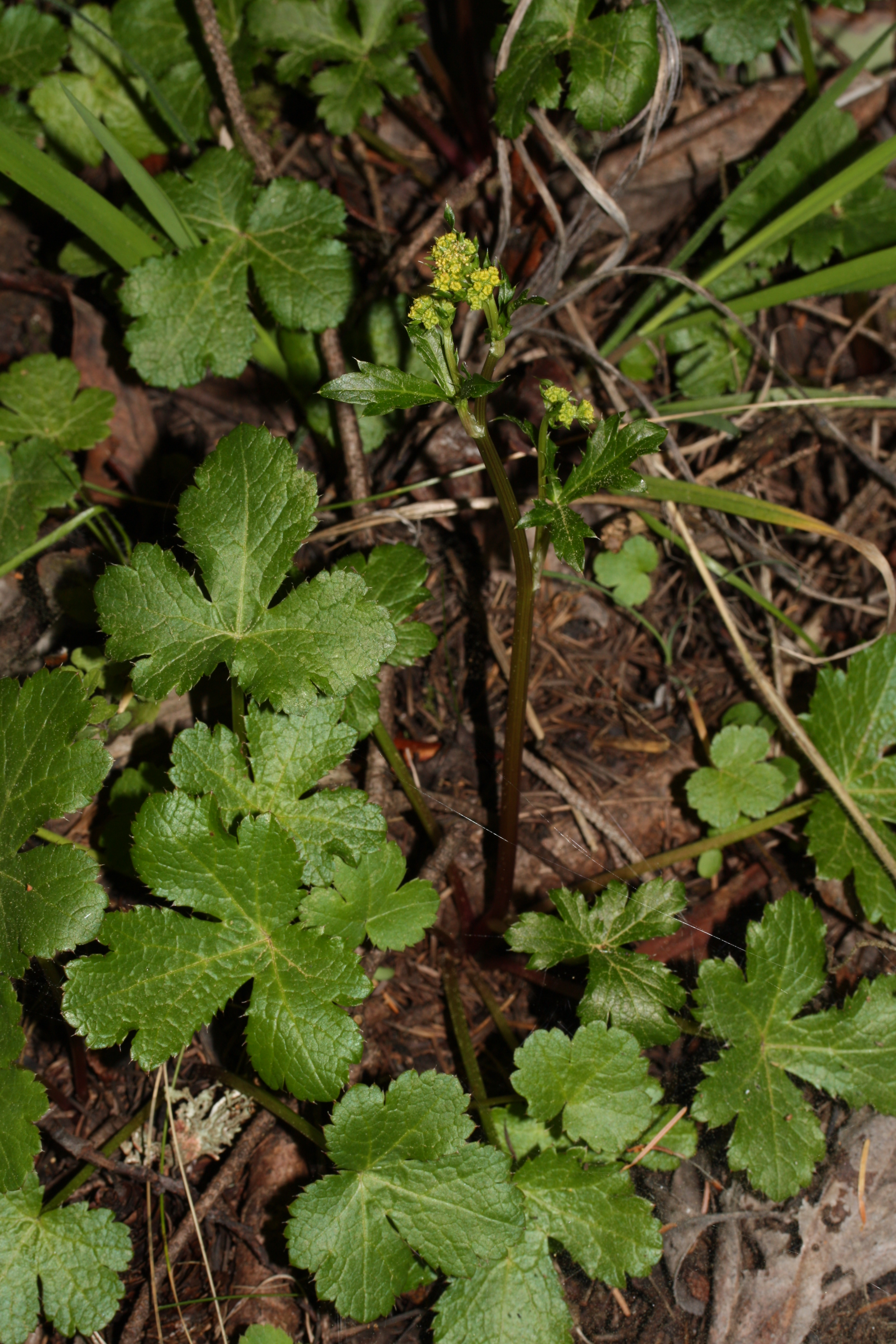 Pacific Sanicle, Pacific Blacksnakeroot; auth. Poepp. ex DC.